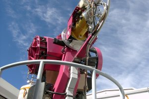 The REM telescope and its instruments in day light